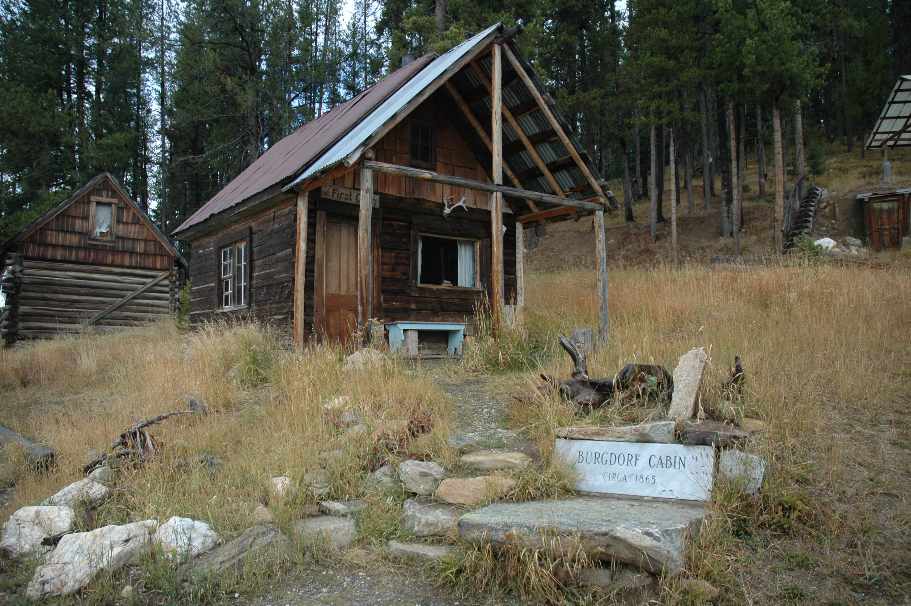 Burgdorf